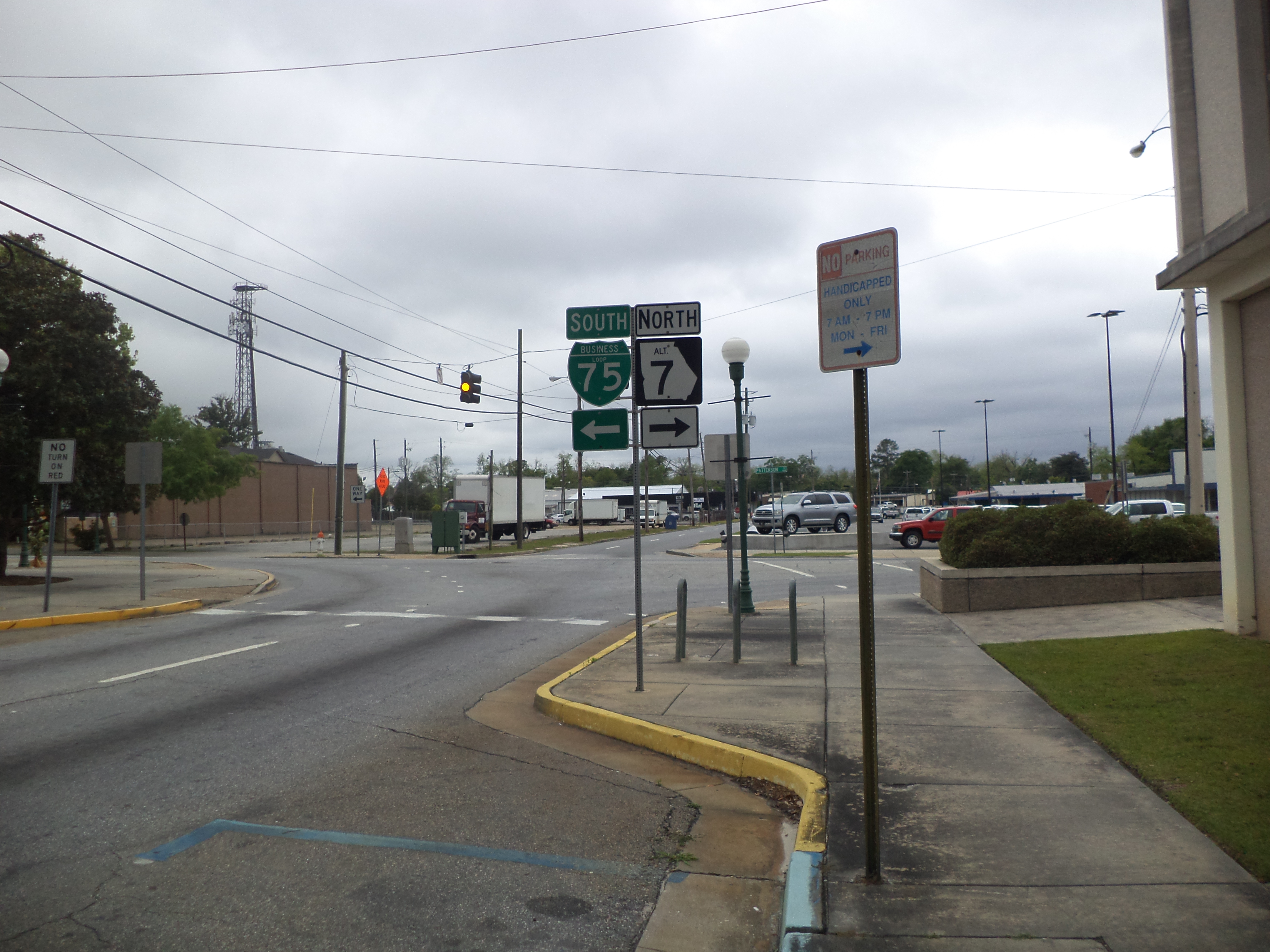 Georgia State Route 7 Alternate begin, E Magnolia St., Valdosta, Lowndes County, Georgia